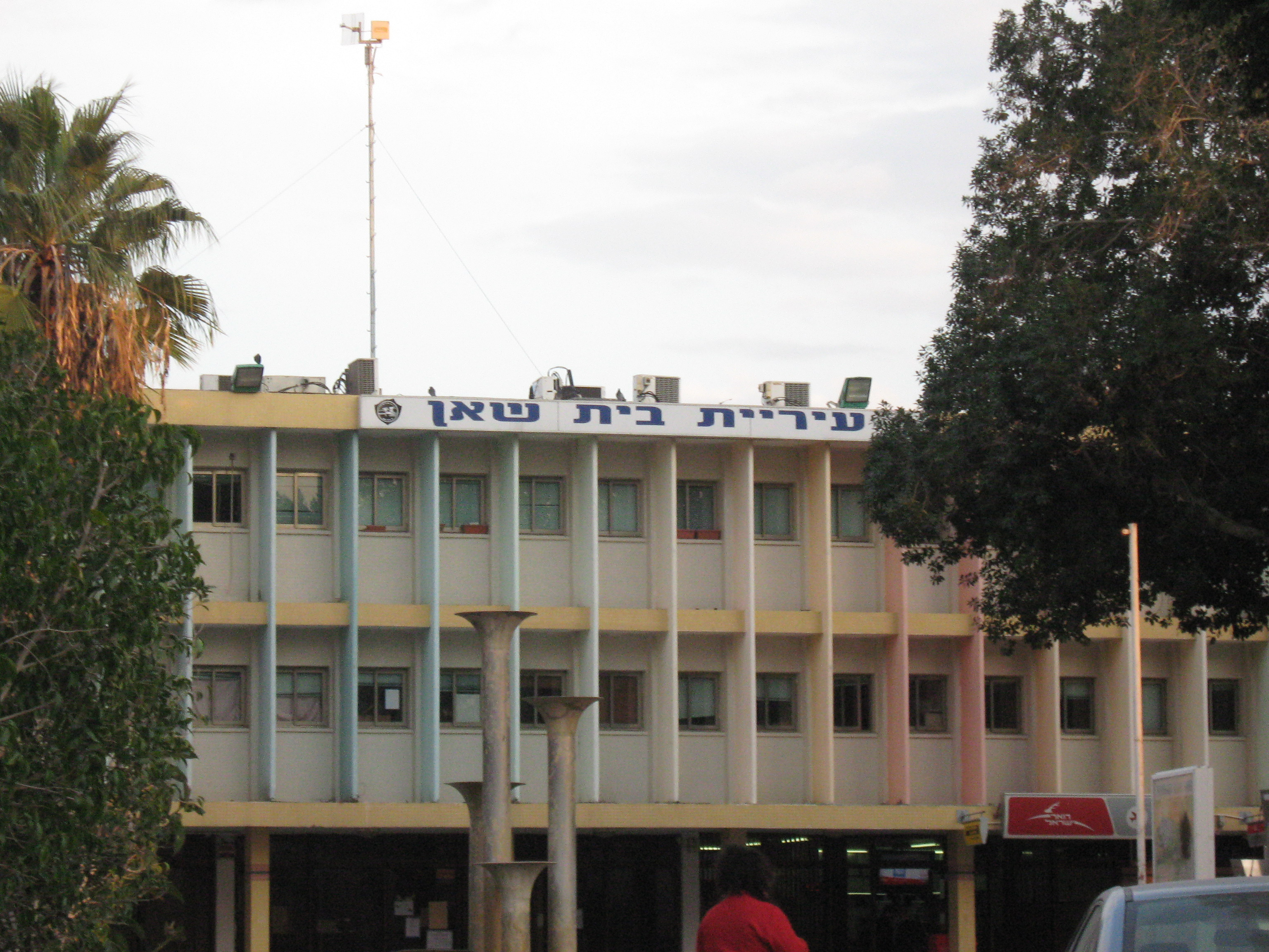 Beit Shean Ahayaaria Structure